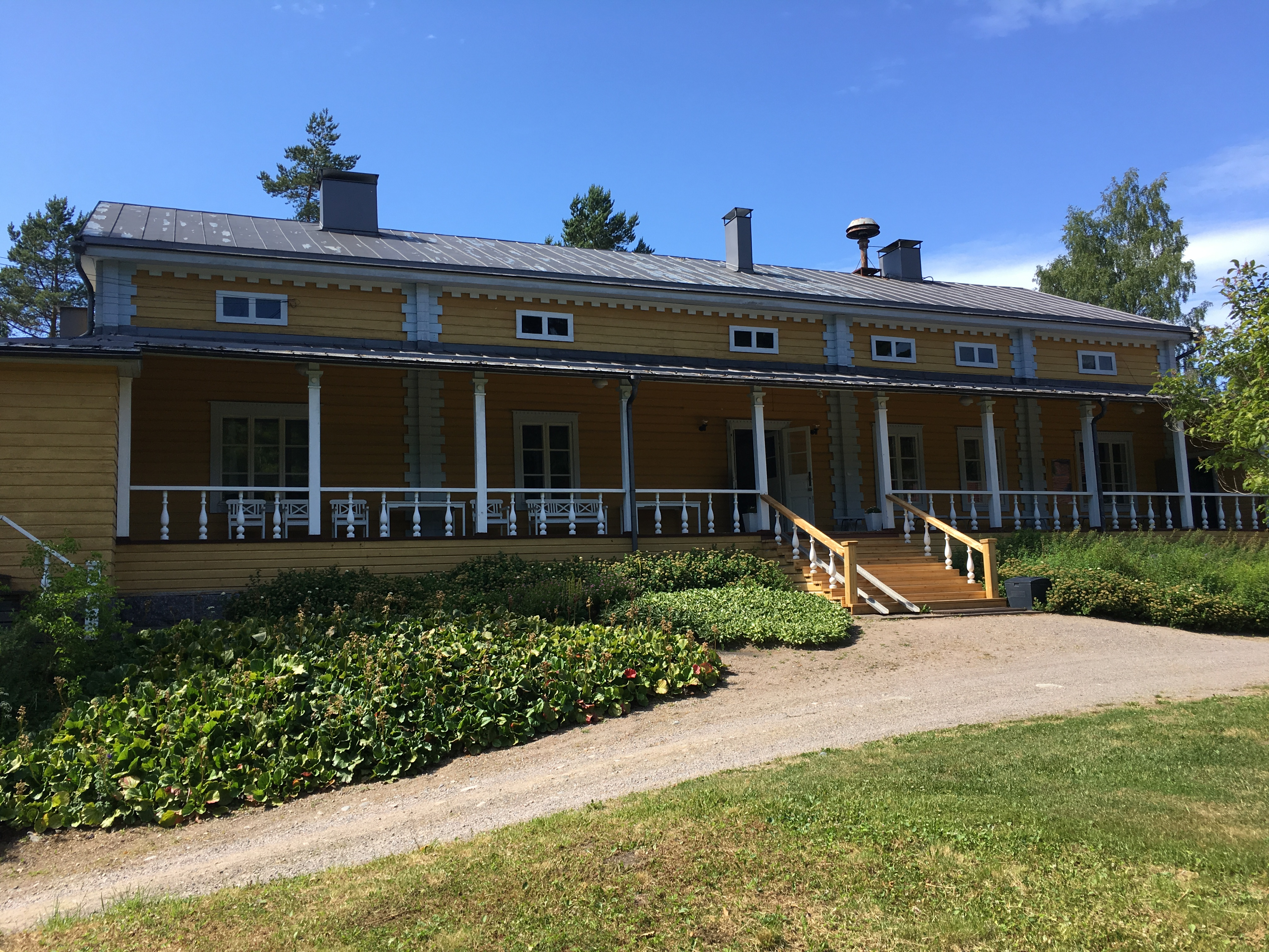 The Great Parsonage (Iso-Pappila) in Mäntyharju. Built in 1812.